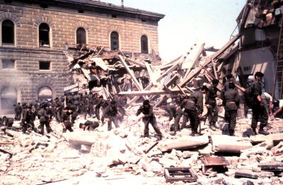 Bombing at Bologna: August 2nd 1980